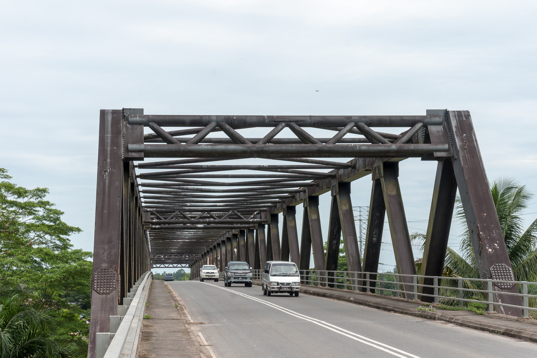 Bridge over the Sungai Kinabatangan near Kg. Batu Putih